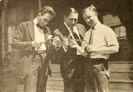 Still with Rudolph Cameron, Louis B. Mayer, and Billy Shea reviewing film from In Old Kentucky (1919), on page 1698 of the August 23, 1919 Motion Picture News.